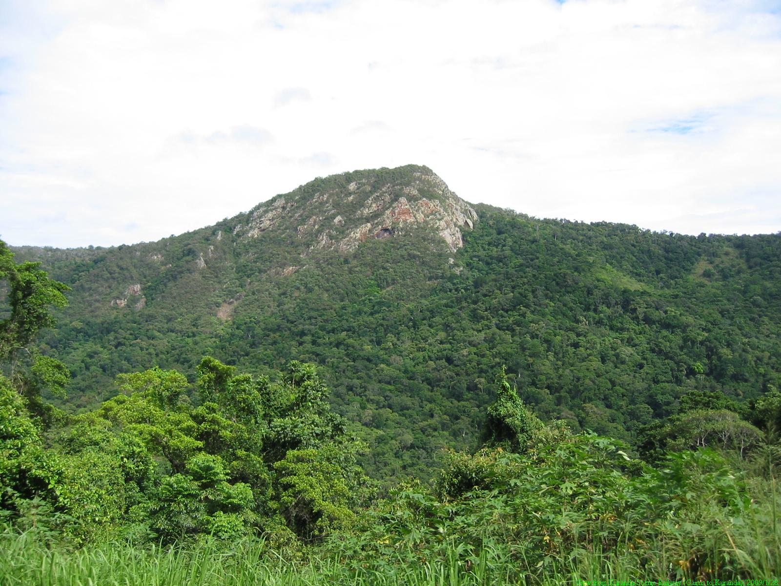 Mountain view from Kuranda Scenic Railway.